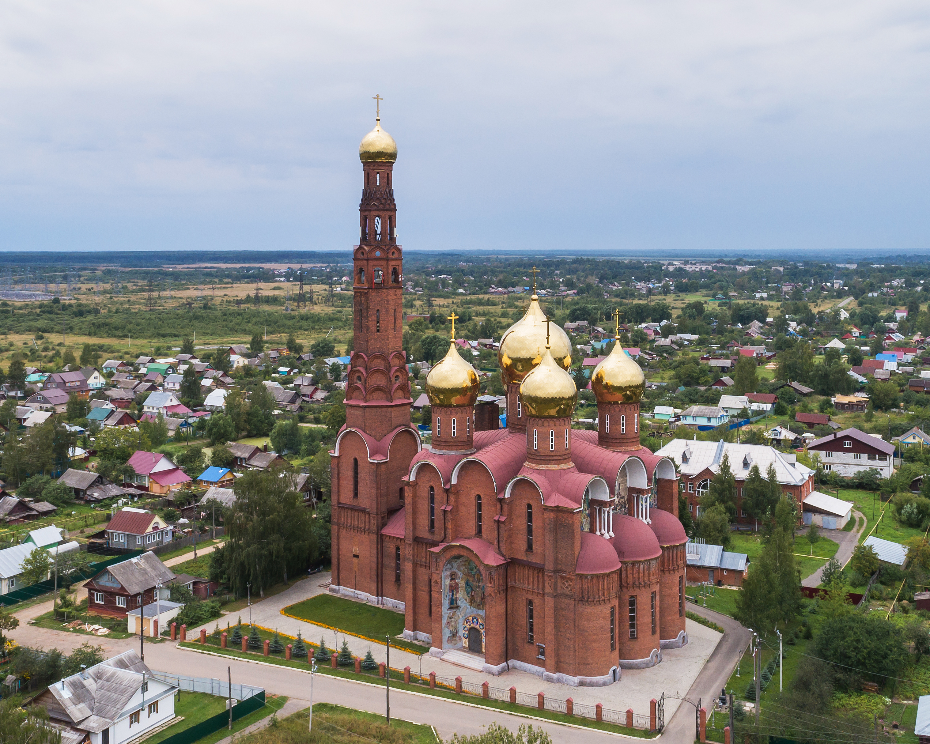 Aerial photo of the Resurrection Church in Vichuga, Ivanovo Oblast, Russia.